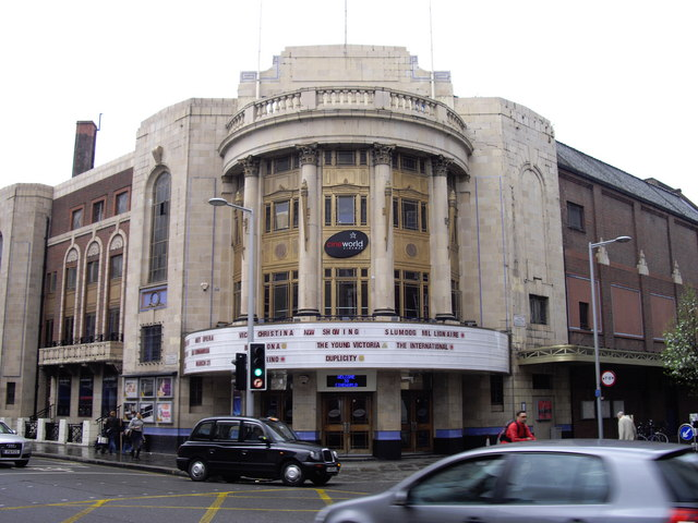 Cineworld Fulham Road On the junction of Fulham Road and Draycott Avenue